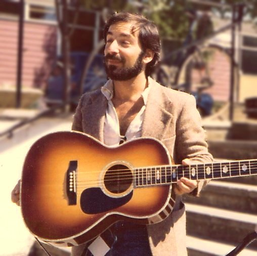 Artie Traum, musician, at the 1978 Norwich Folk Festival, U.K. (photograph by Tony Rees)